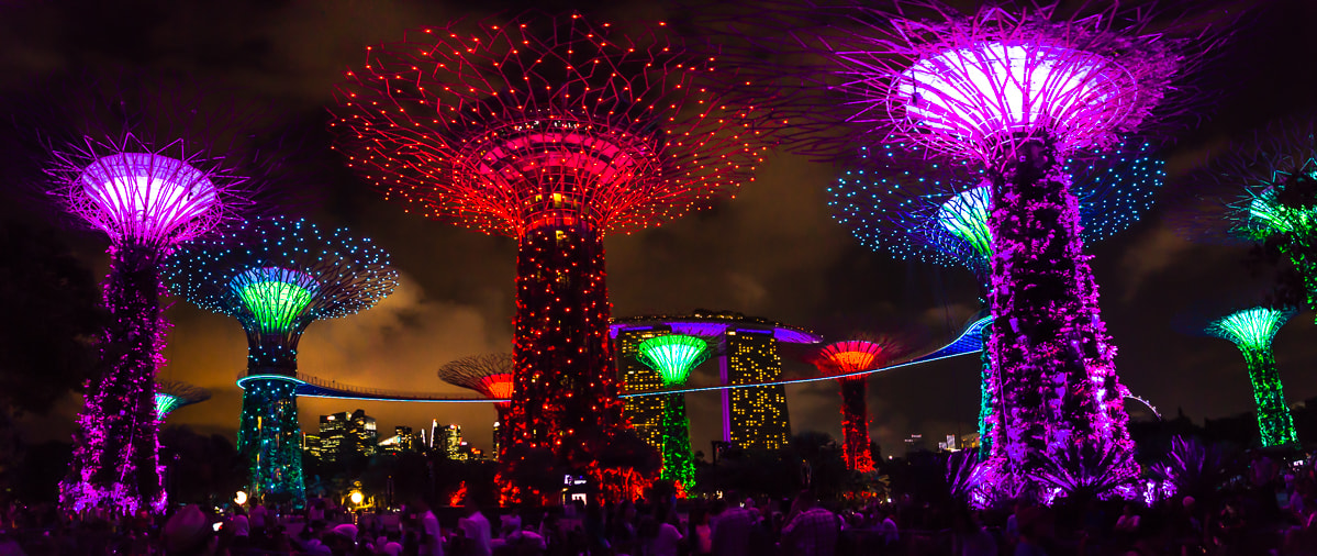 500px provided description: Supertree Grove At Garden [#sky ,#city ,#street ,#water ,#river ,#travel ,#night ,#light ,#buildings ,#clouds ,#urban ,#architecture ,#cityscape ,#lights ,#building ,#singapore ,#skyline ,#long exposure ,#street photography]